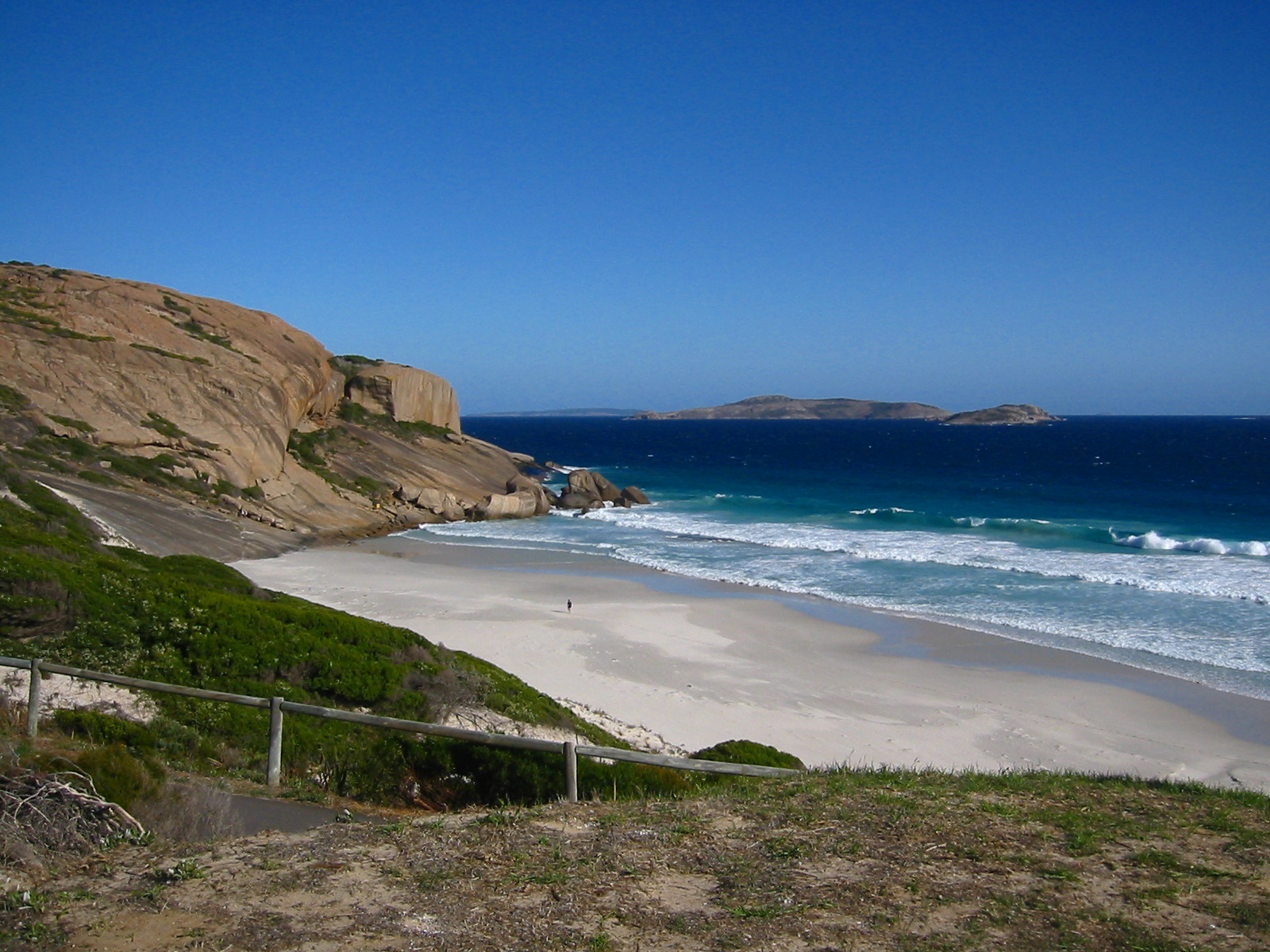 beautiful beach of Esperance